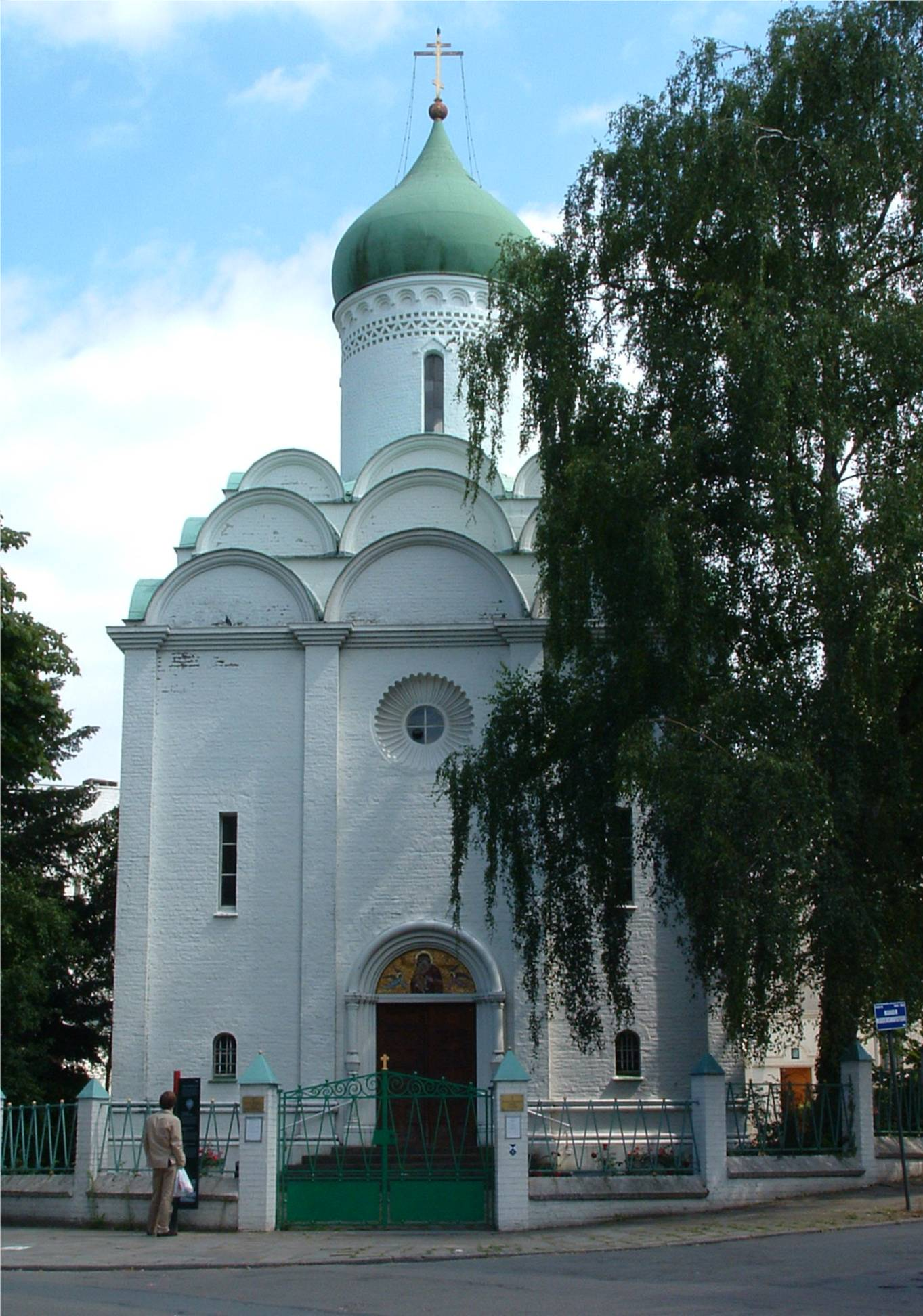 Russian Orthodox church, Ukkel.